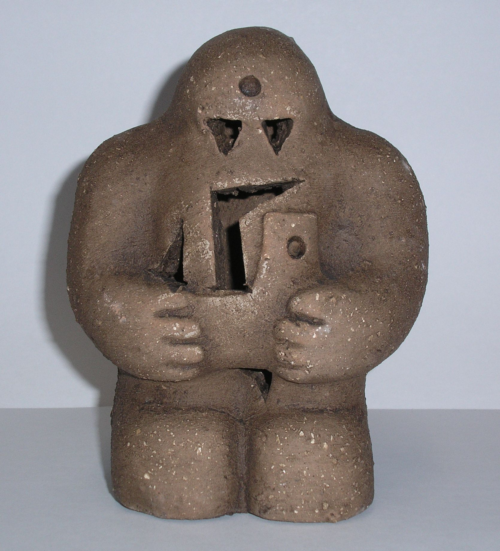 reproduction of the Prague Golem